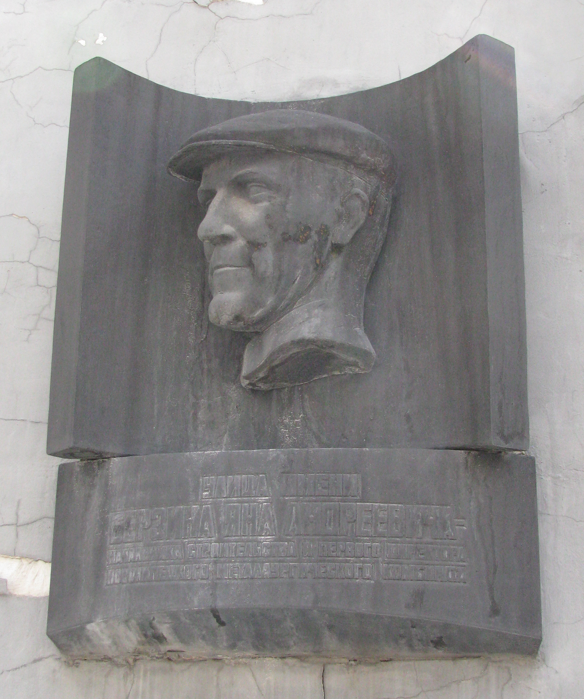 Plaque in tribute to Yan Berzin, at Berzin Street in Lipetsk, Russia